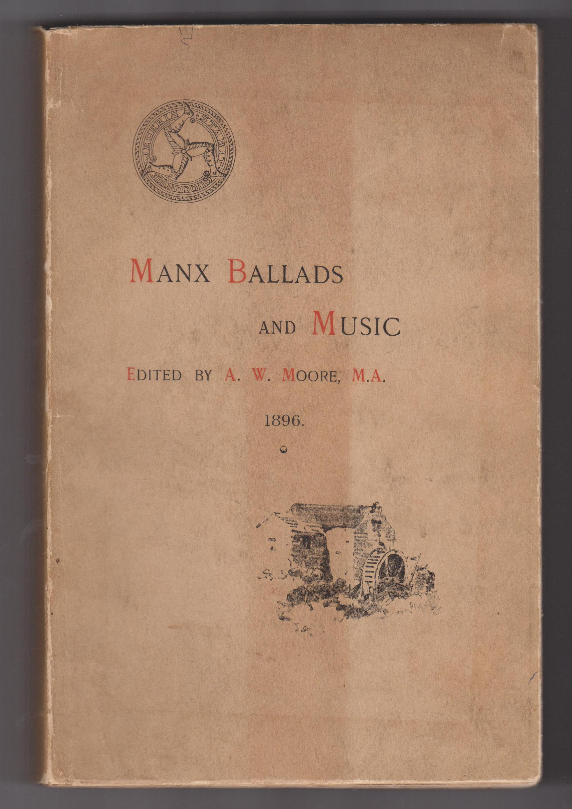 The front cover of the first edition of A. W. Moore's 'Manx Ballads and Music', 1896